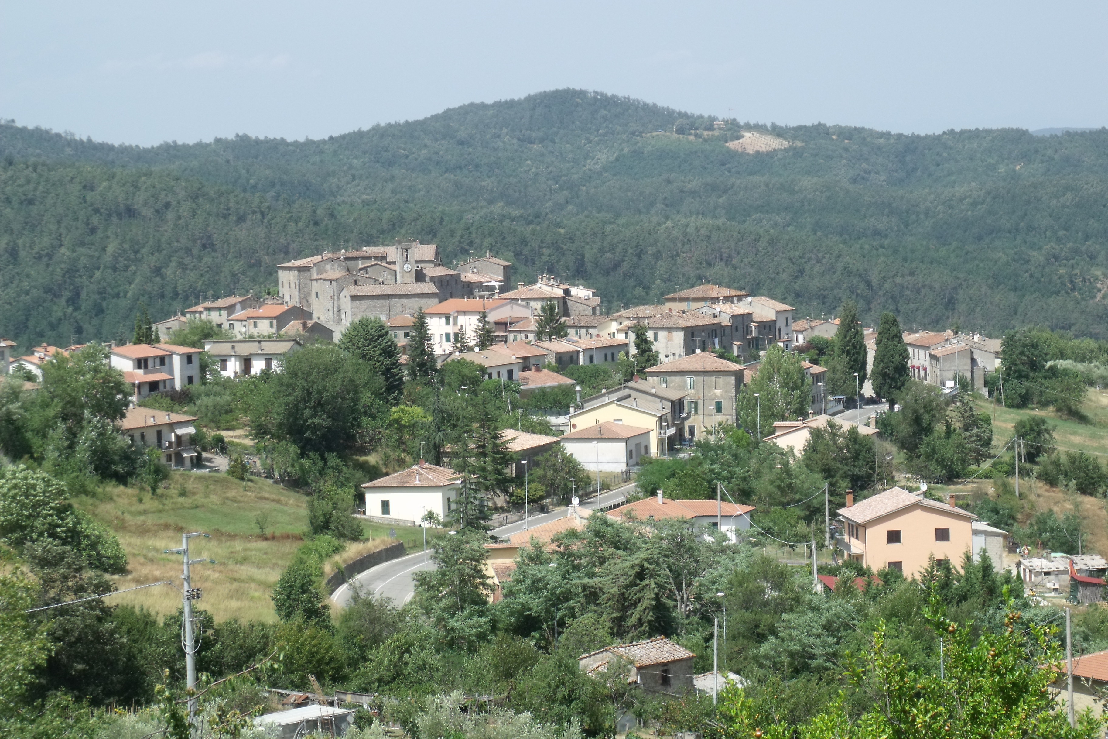 Panorama of Torniella, Hamlet of Roccastrada, Maremma, Province of Grosseto, Tuscany, Italy